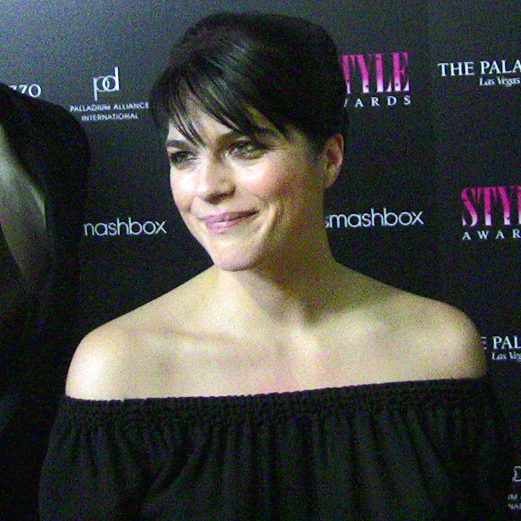 Selma Blair at the 2011 Hollywood Style Awards: Red Carpet Report.